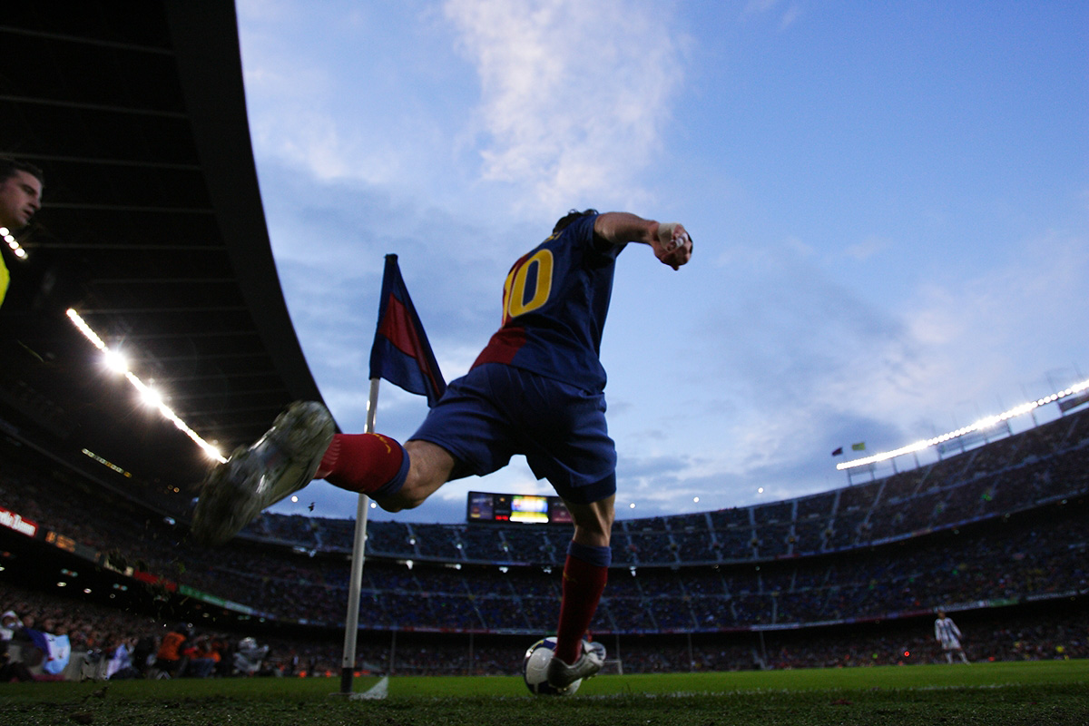 APRIL 11, 2009 - Football : Lionel Messi of FC Barcelona during the La Liga match between Barcelona and Recreativo Huelva at the Camp Nou Stadium on April 11, 2009 in Barcelona, Spain. Barcelona won the match 2-0. (Photo by Tsutomu Takasu)